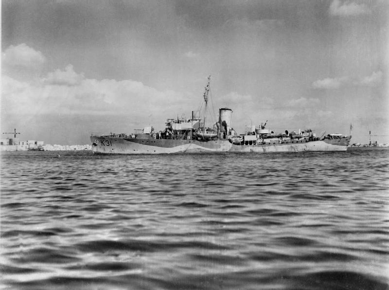 Photograph of British Flower class corvette HMS Camellia (K31) .